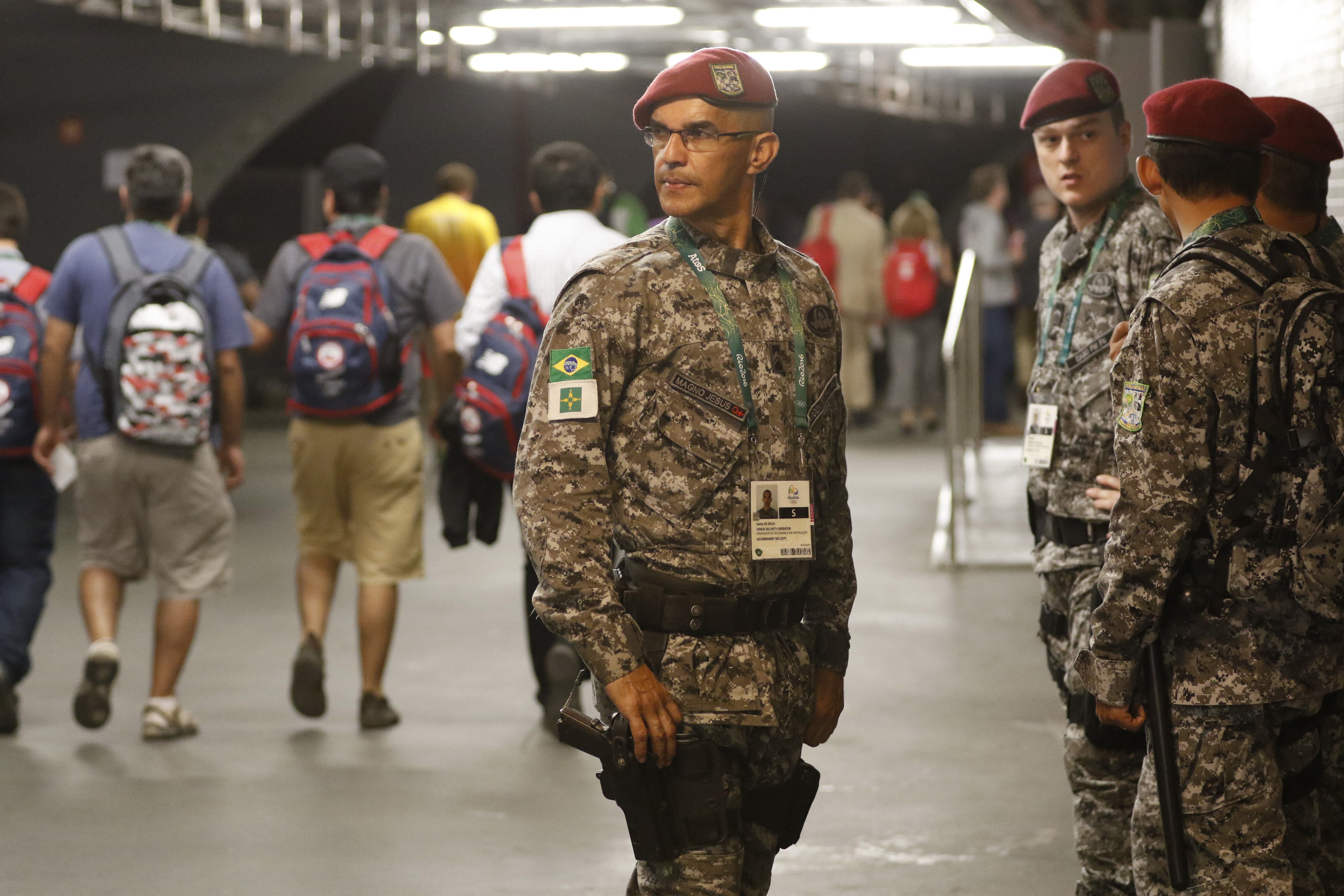 Rio de Janeiro - Segurança para cerimônia de abertura dos Jogos Olímpicos Rio 2016 no Estádio do Maracanã (Fernando Frazão/Agência Brasil)